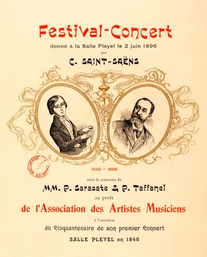 Poster for a concert by Camille Saint-Saëns, Pablo de Sarasate and Paul Taffanel on 2 June 1896 at the Salle Pleyel in Paris, on the occasion of the 50th anniversary of Camille Saint-Saëns' first concert at the Salle Pleyel in 1846.